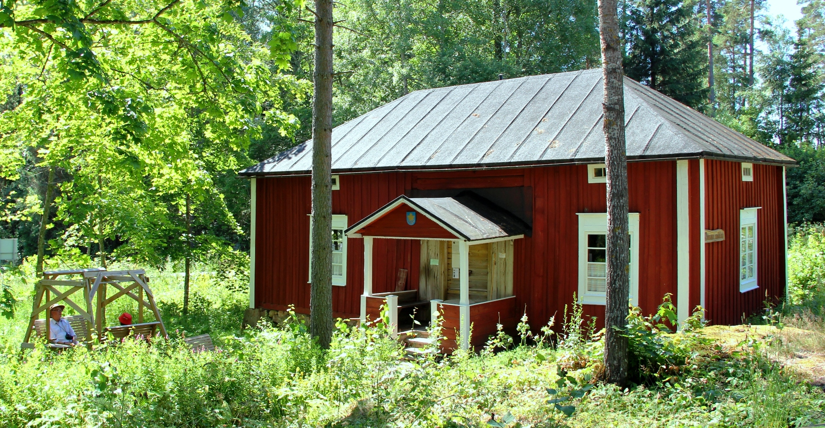 Miina's cottage, Sammatti, Lohja, Finland - Miina Lönnrot was the niece of Elias Lönnrot. She lived in this house when old.